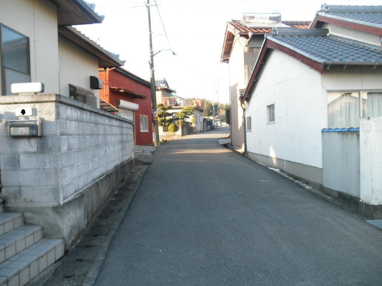 Kasa Mikicity Hyogopref